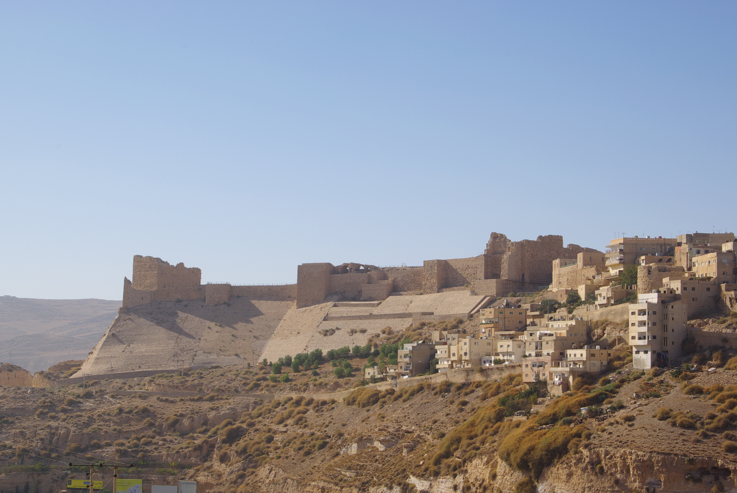 Kerak